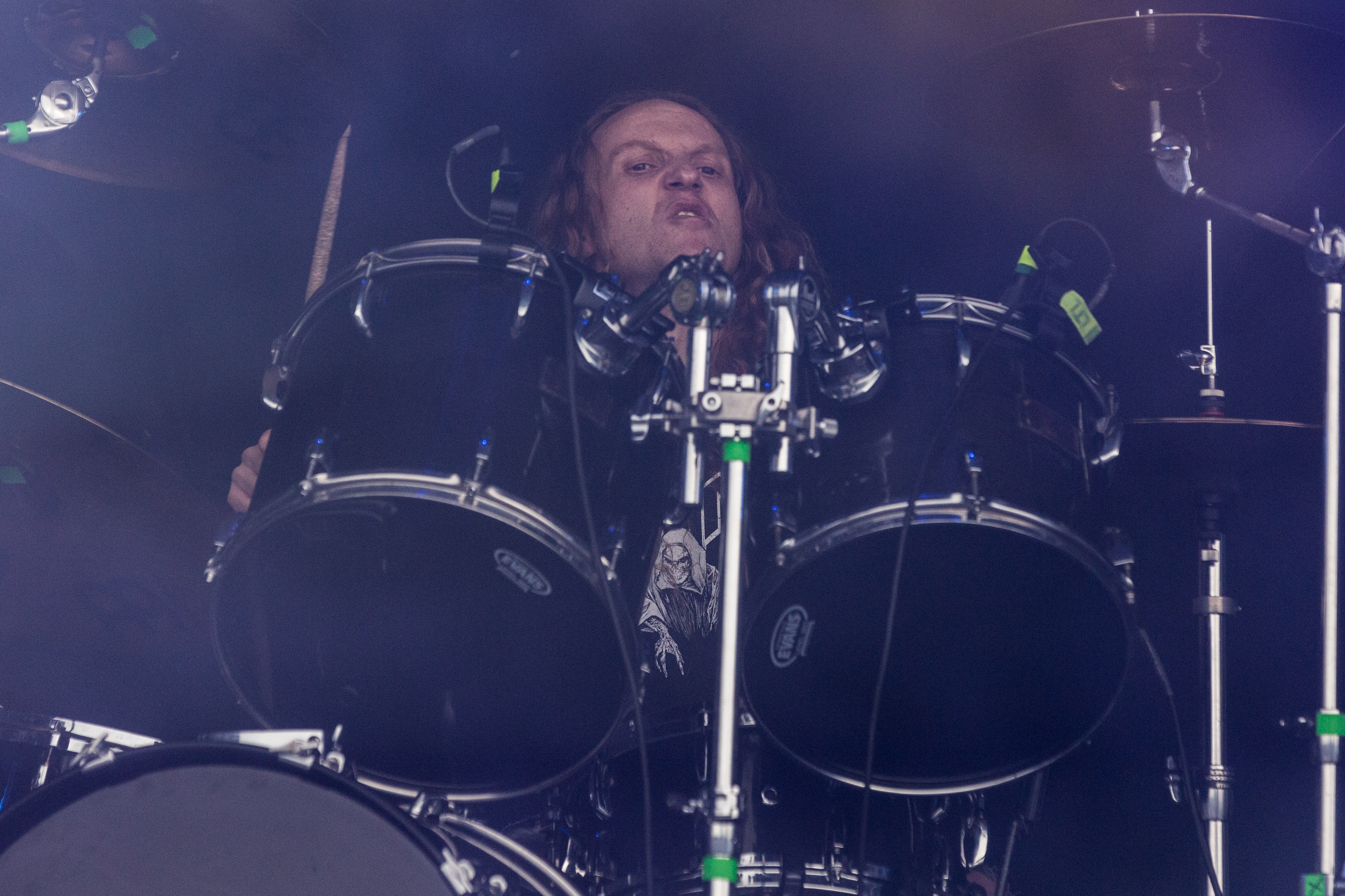 The Norwegian black/thrash metal band Aura Noir at the Party.San Metal Open Air 2017 in Obermehler-Schlotheim/Germany.